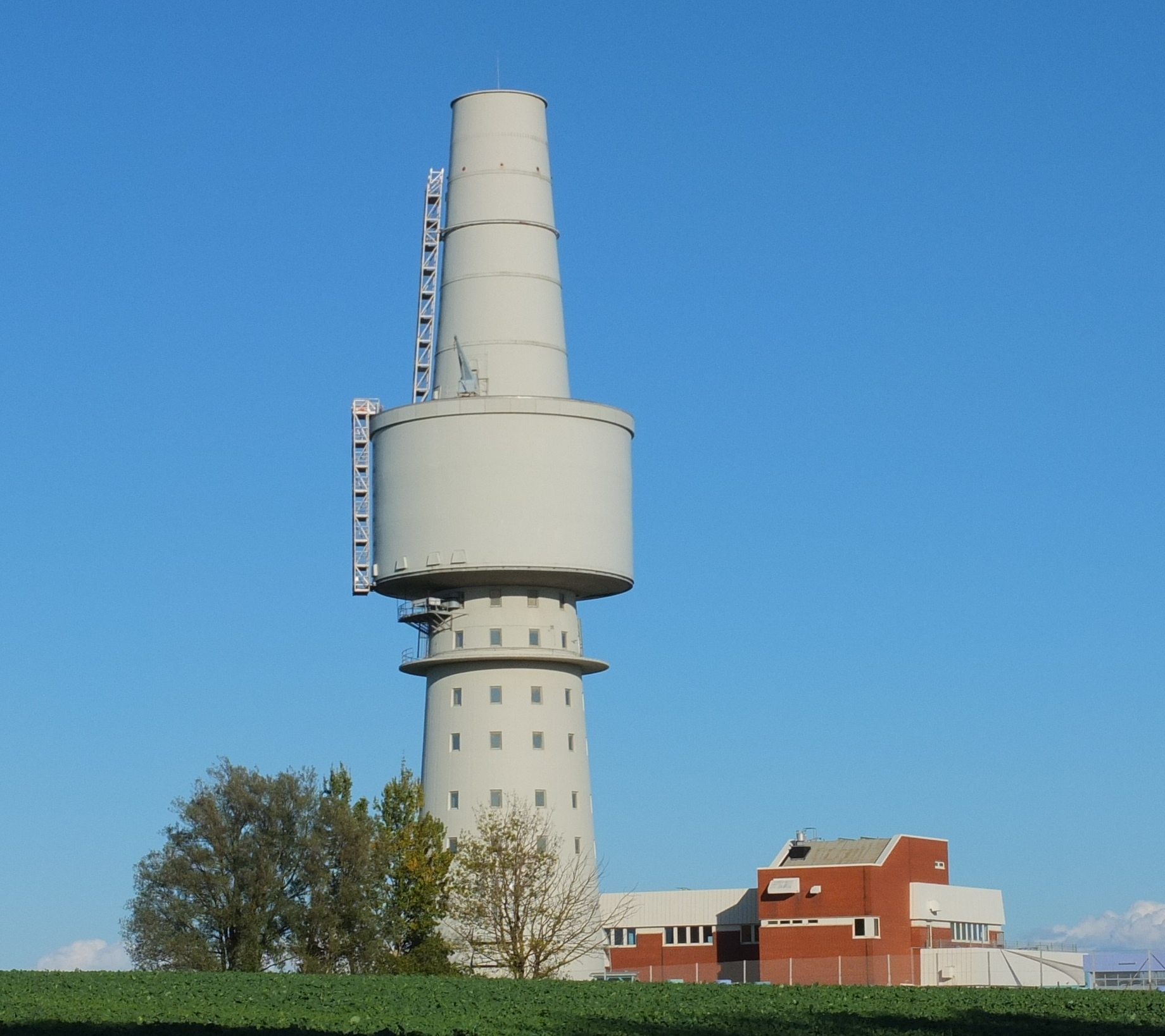 The former "Aufklärungsturm A" in Klaustorf, near the German coast of the Baltic Sea.